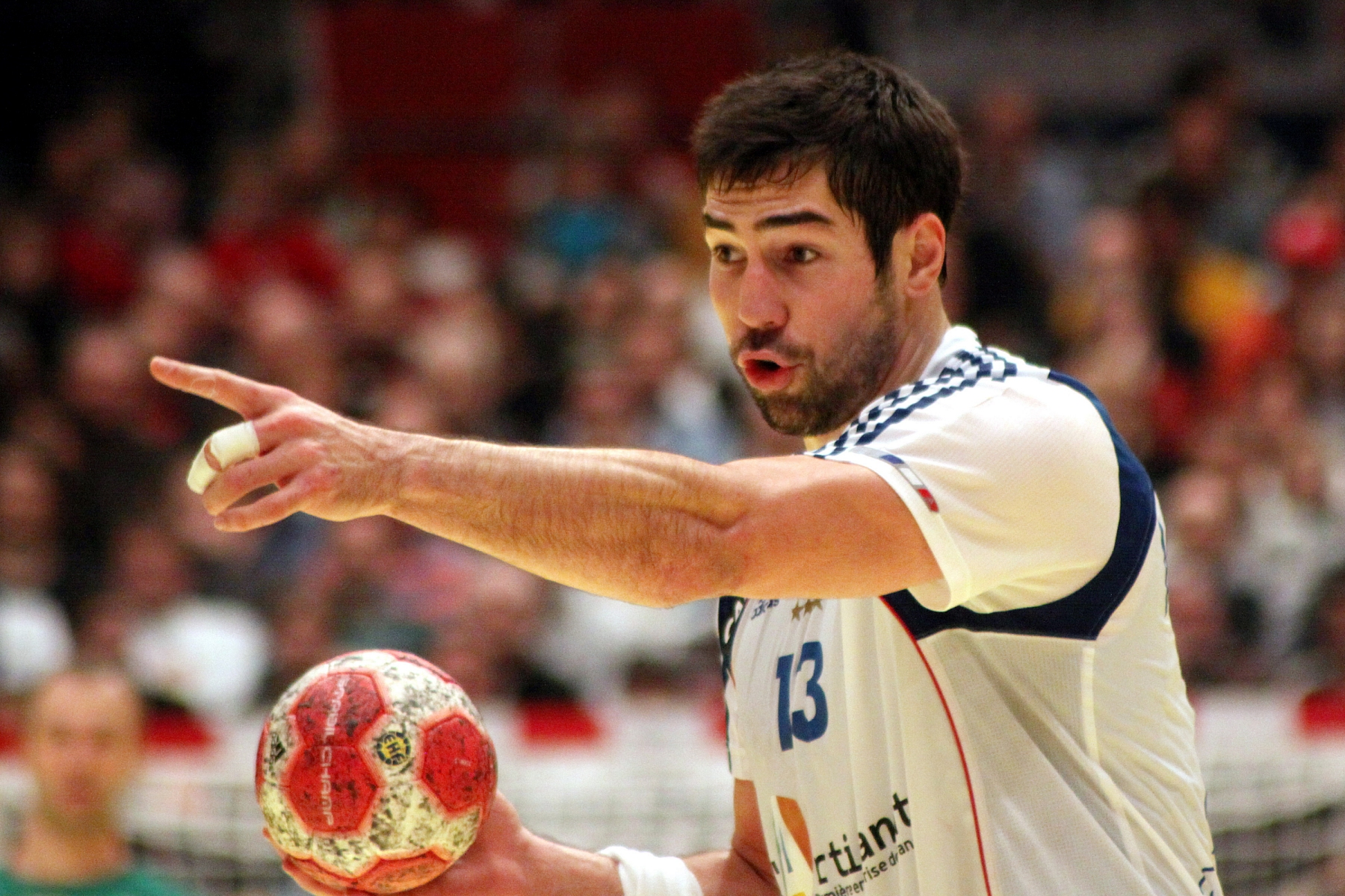 Nikola Karabatić (Montpellier HB), France national handball team